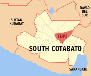 Map of the South Cotabato showing the location of Tupi